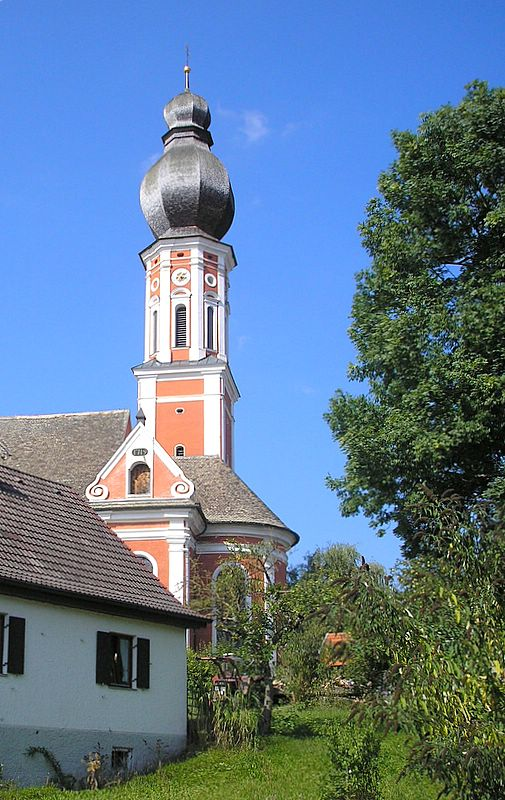 St. Martin (Hechenwang, Municipality Windach, Landkreis Landsberg am Lech, Upper Bavaria, Germany). View from the south